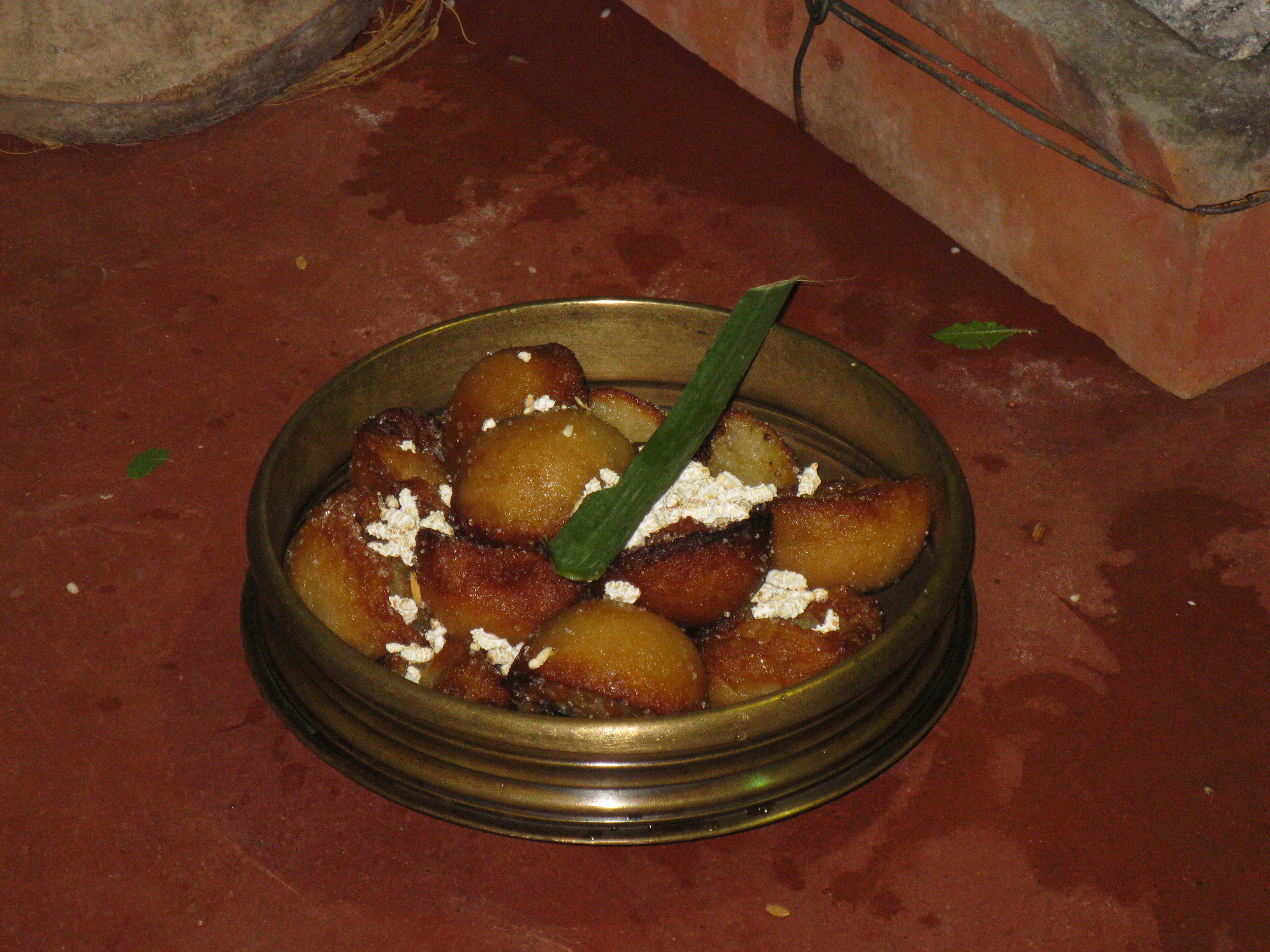 Unniyappam This media file is uploaded with Malayalam loves Wikimedia event.